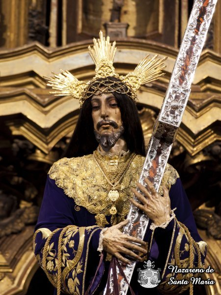 el nazareno